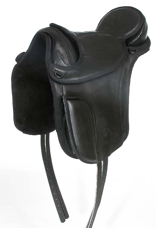 Barefoot saddle London